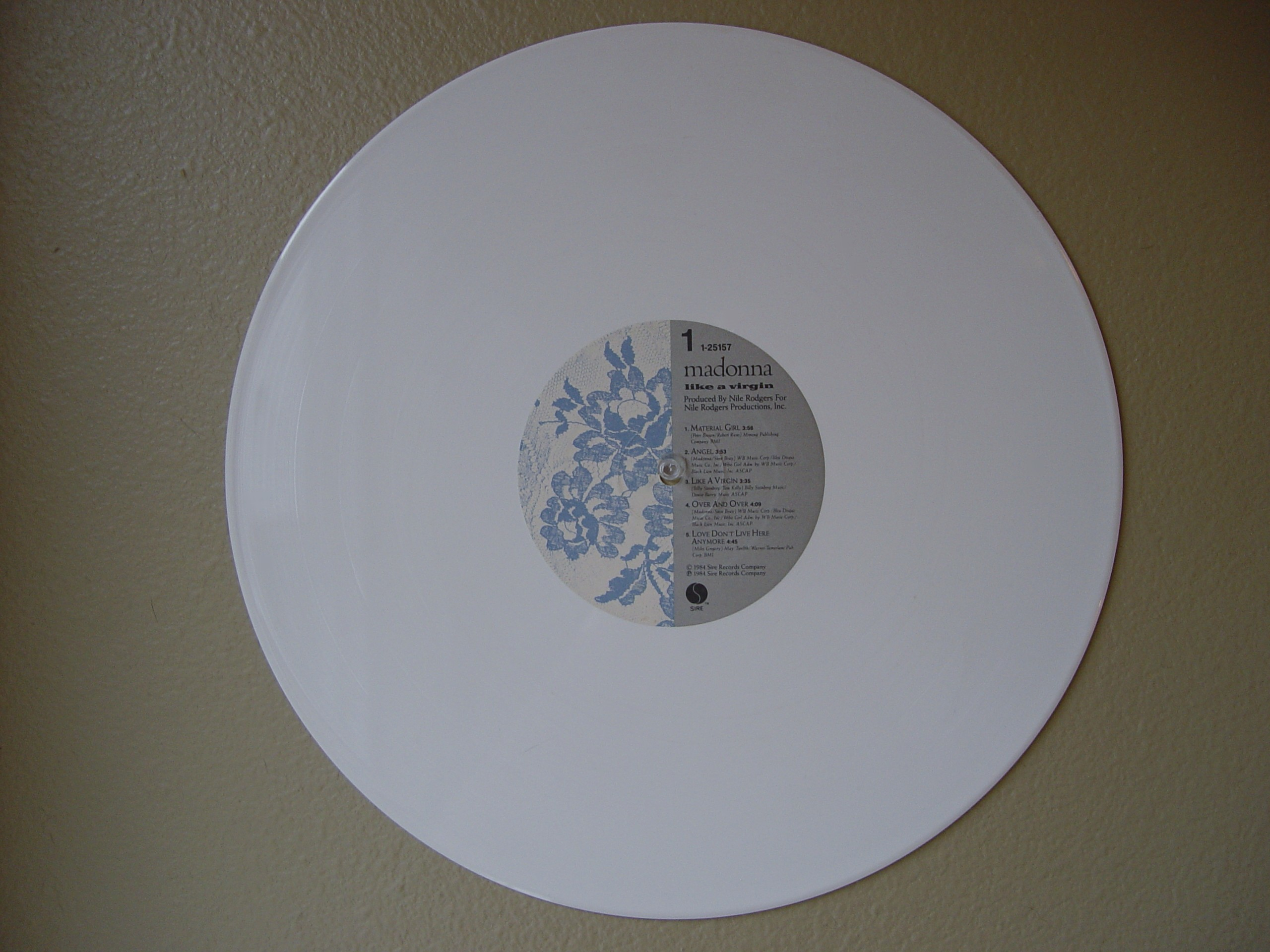 A white vinyl record of Like a Virgin by Madonna.